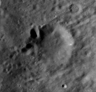 LROC WAC image (No. M119054707ME). Calibrated by LROC_WAC_Previewer.